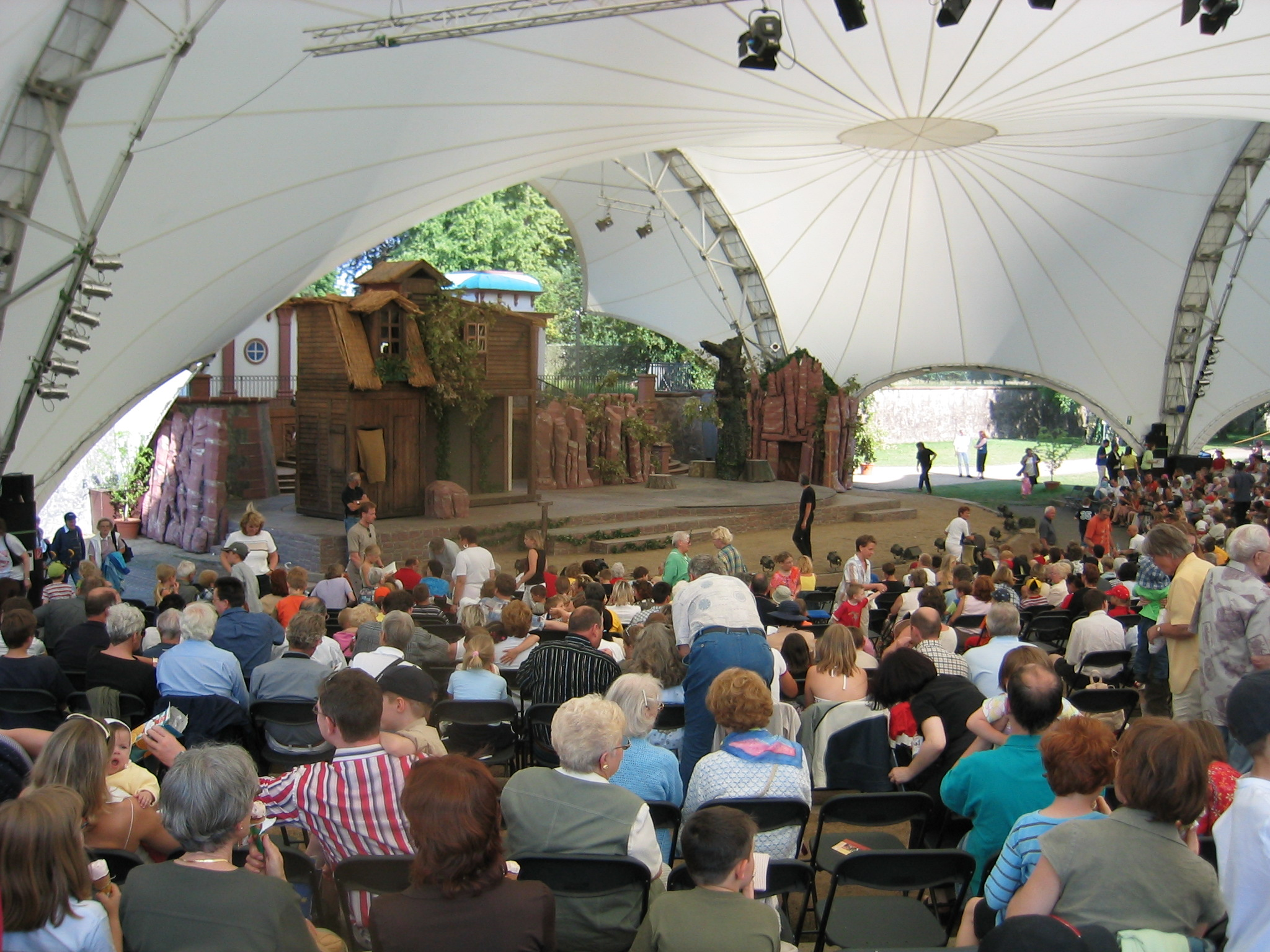 Theater event during the Märchenfestspiele. It is on a break. The audience return to their seats to watch the second part of the performance.